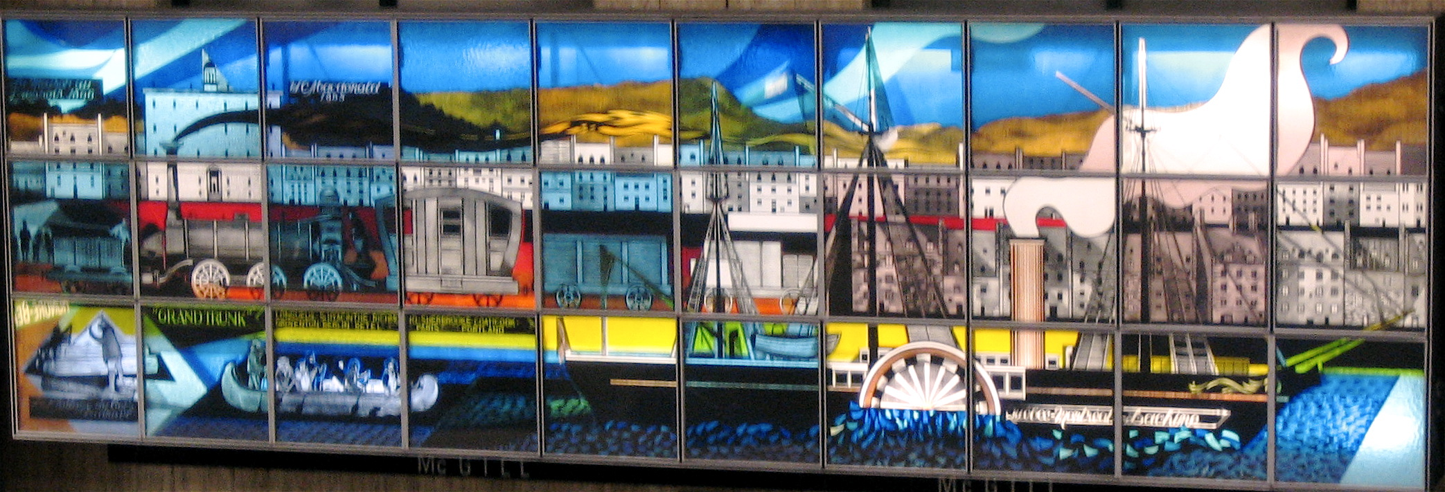 Stained glass, McGill metro station, Montreal. Fourth of five pieces from East to West.